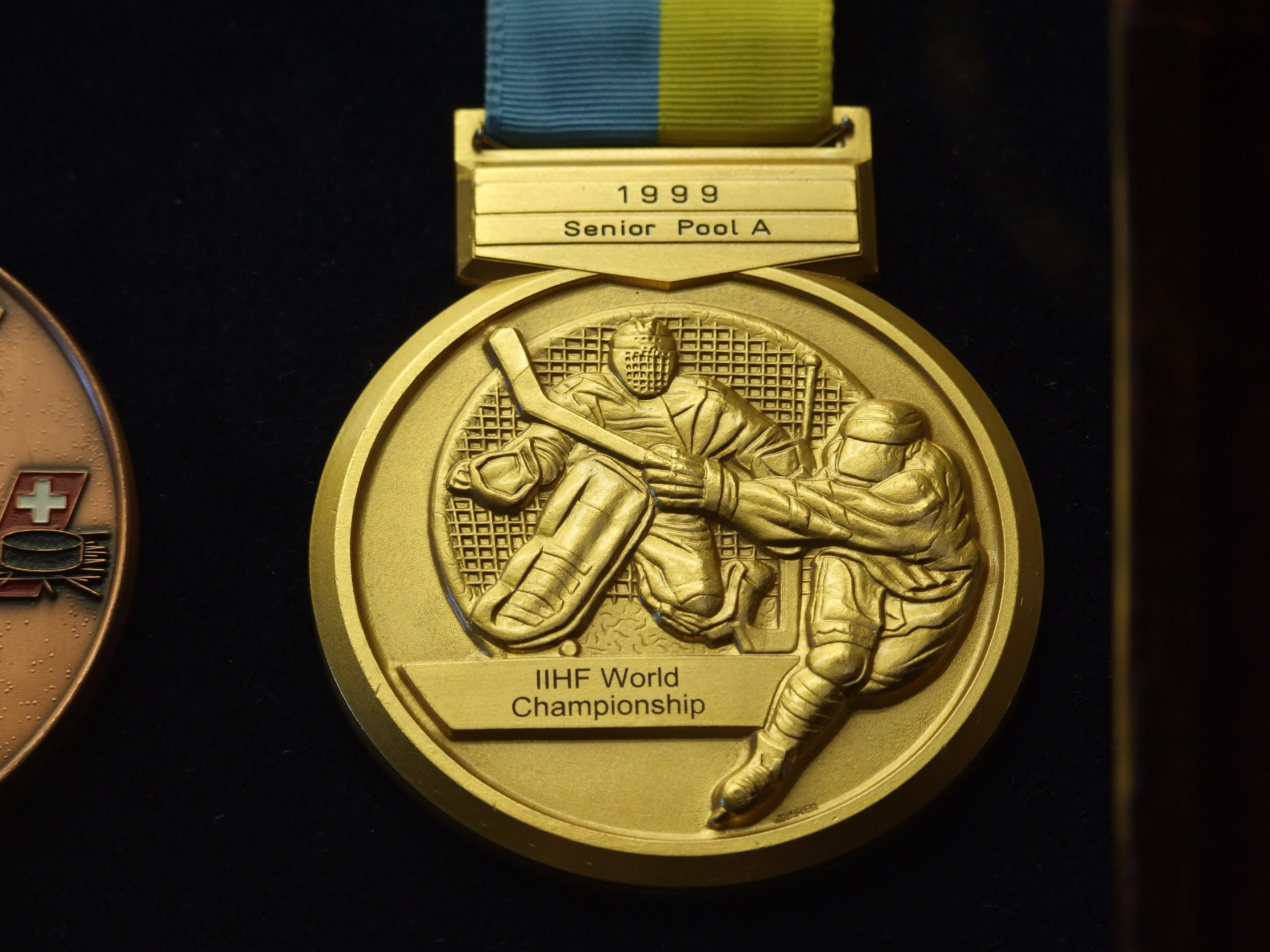 One Century Of Czech Ice Hockey Exhibition, National Museum in Prague: [1]